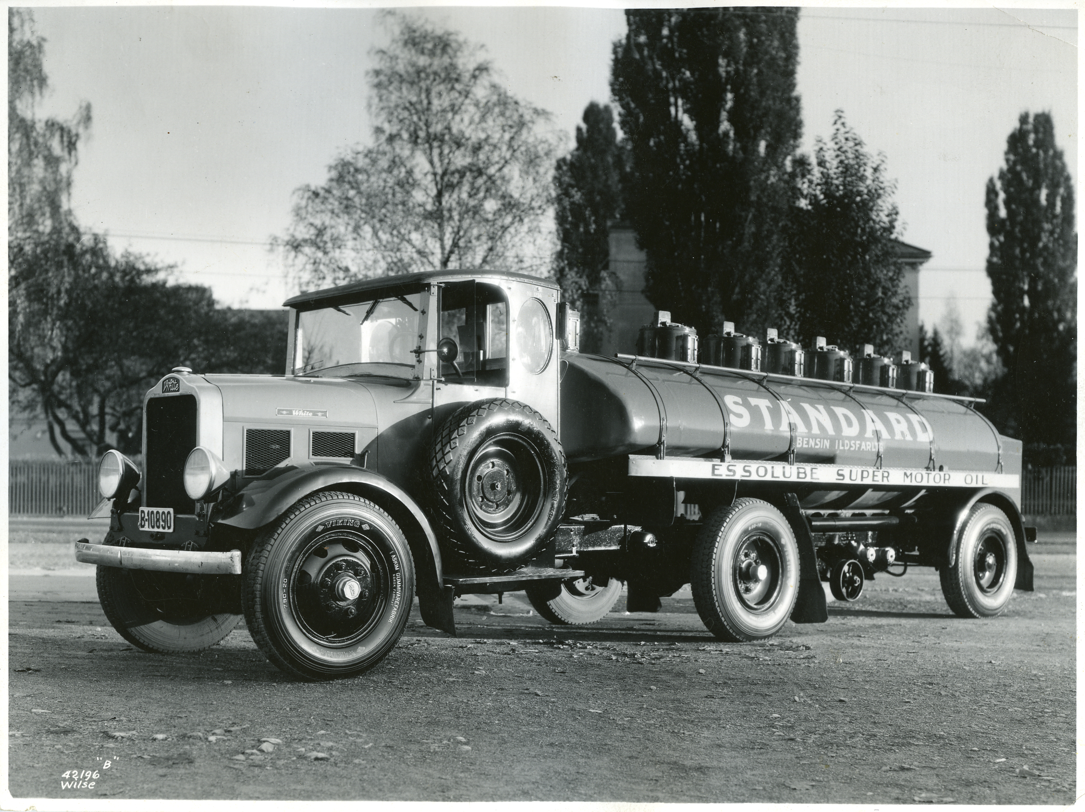 White tankbil, 5000 liter